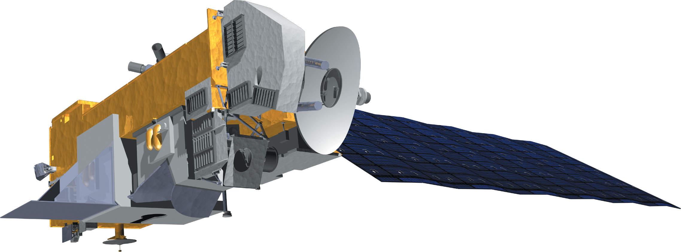 Artist's concept of the Aura satellite.